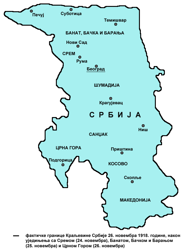 de facto borders of the Kingdom of Serbia in November 26, 1918, after unification with Syrmia (November 24), Banat, Bačka and Baranja (November 25) and Montenegro (November 26) - Serbian language version.